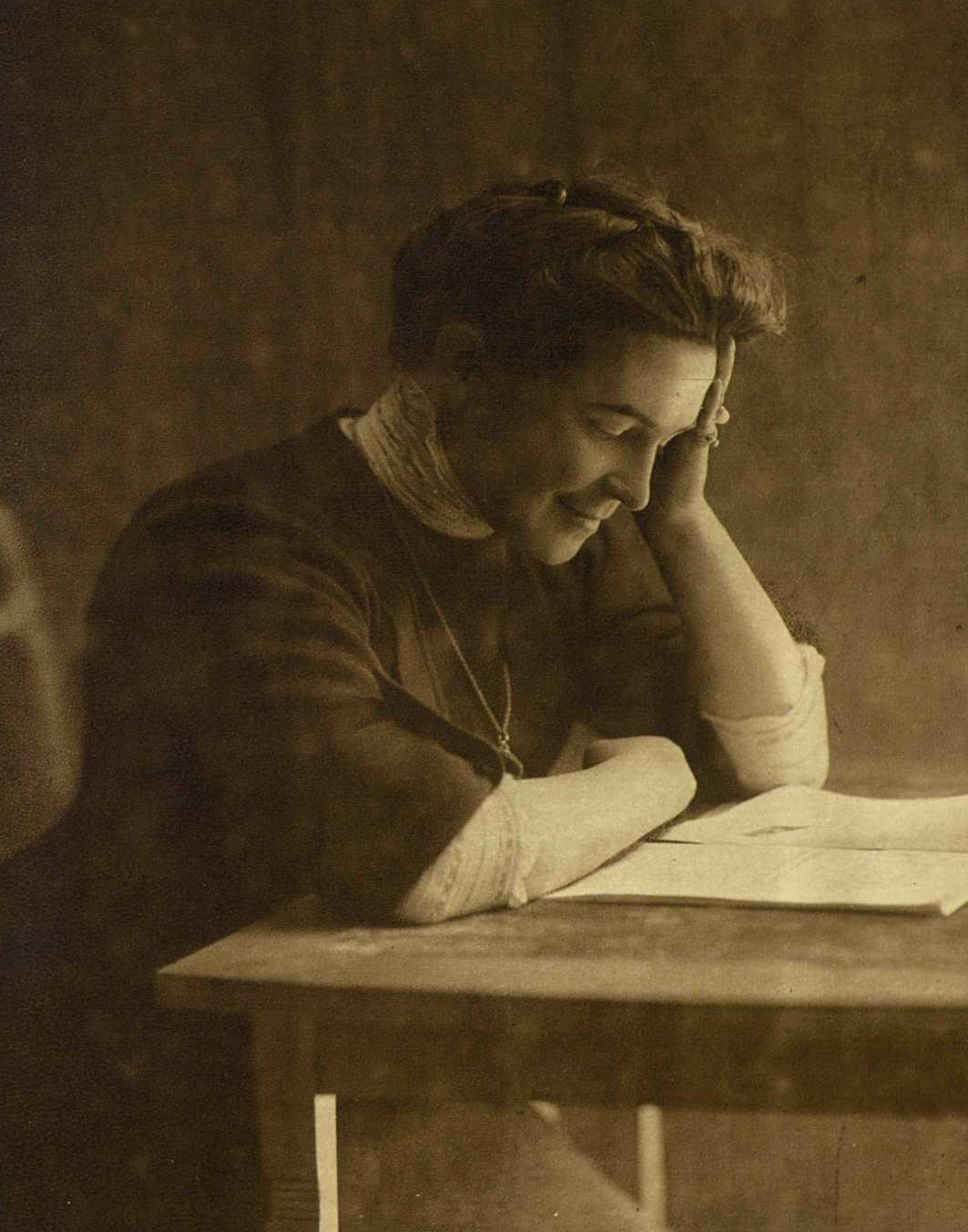 Olga Knipper